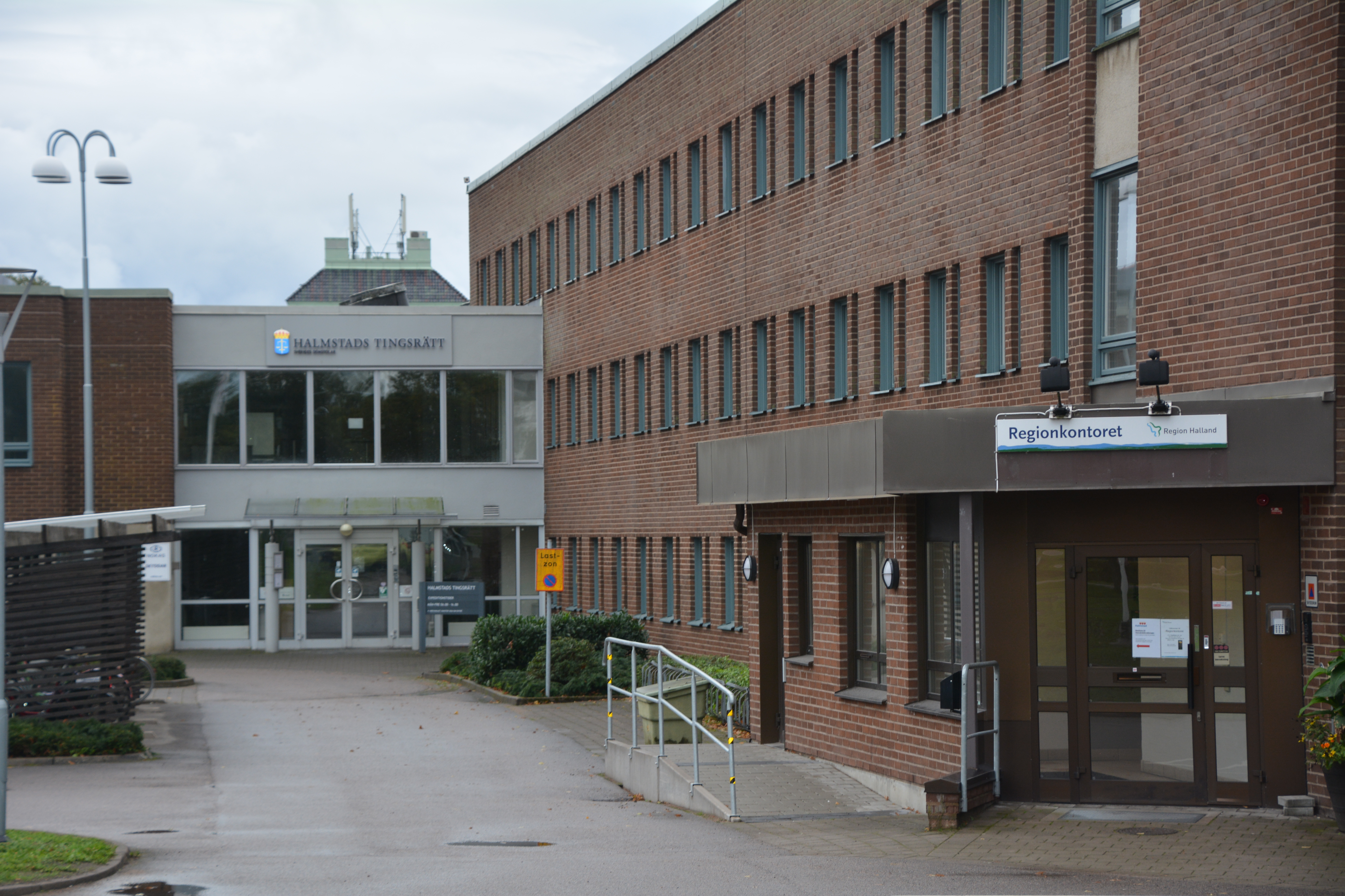 Halmstads tingsrätt